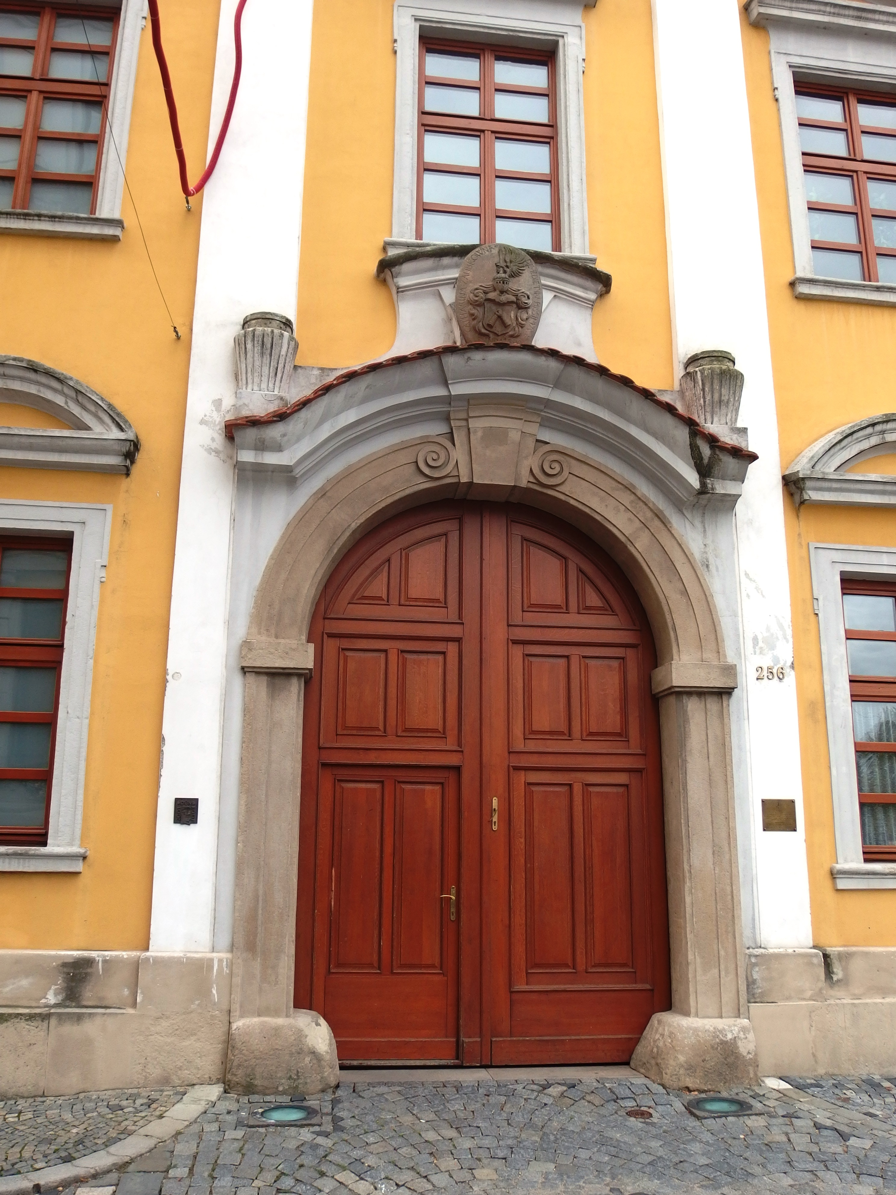 Uherské Hradiště, Czech Republic. Square Masarykovo náměstí, Redoubt, portal.